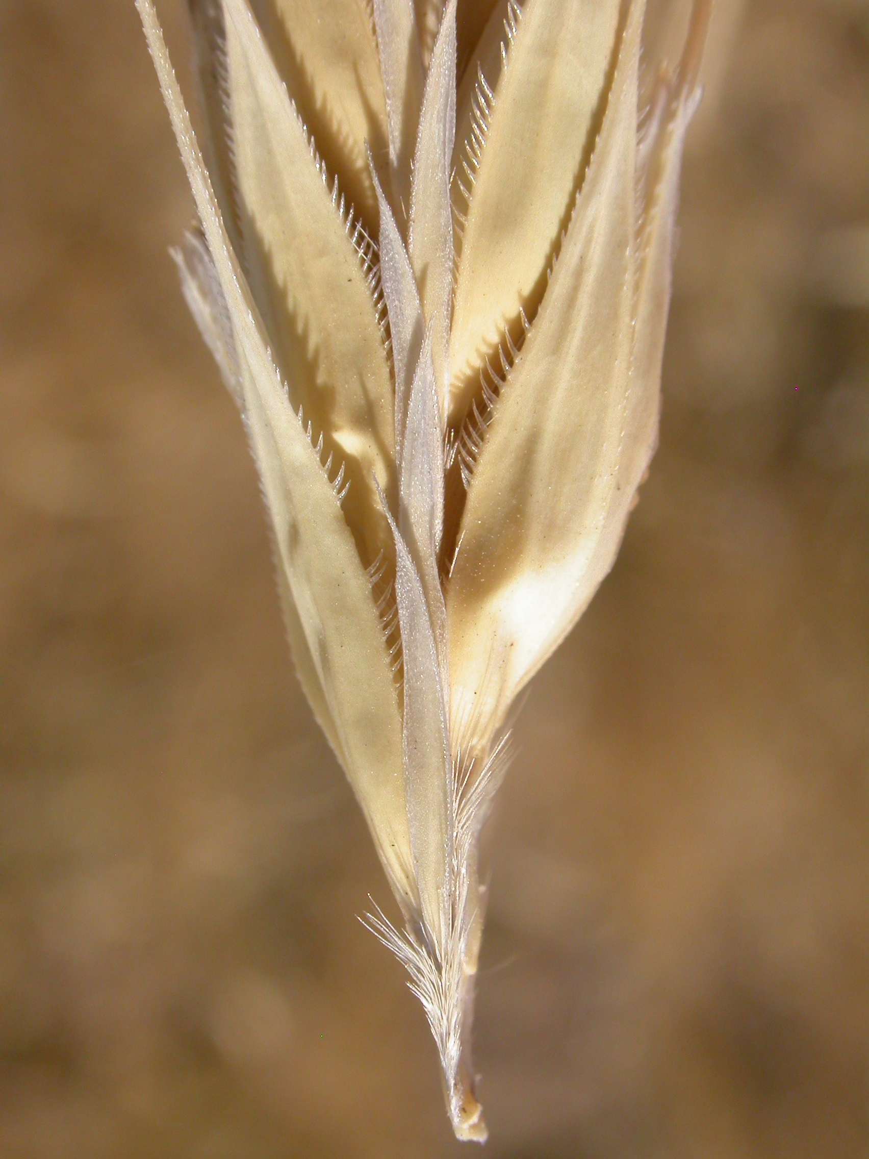 The small pair of glumes and two large florets per spikelet are distinctive of rye.